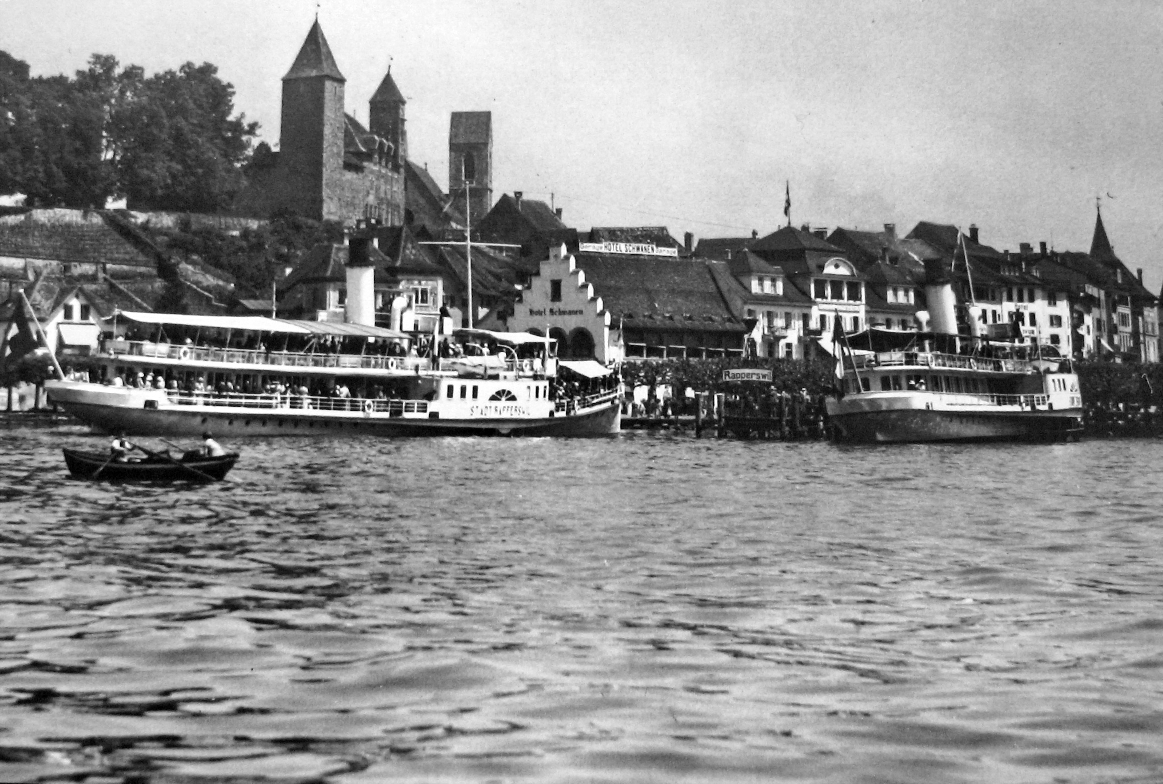 Zürichsee-Schiffahrtsgesellschaft (ZSG) : Paddle steamships «Stadt Rapperswil» (to the left) and «Stadt Zürich» (1914) at Rapperswil (SG) harbour, Rapperswil castle in the background.